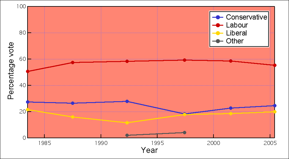 United Kingdom general election results for Barnsley West and Penistone constituency from its creation in 1983 to the present. © Jeremy Atherton 2005.